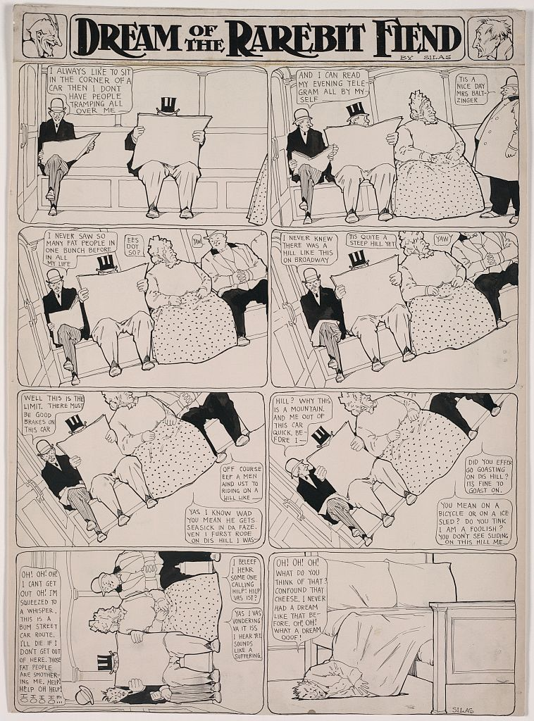 Title: Dream of a rarebit fiend. "I always like to sit in the corner of a car then I don't have people trampling all over me" / Silas. Abstract/medium: 1 drawing : ink over graphite underdrawing with overlay ; 48.5 x 35.4 cm. (sheet)